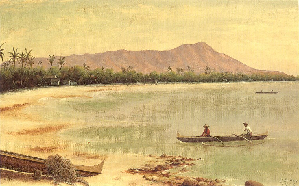 Canoes at Diamond Head — 1890 oil on canvas painting of Waikiki Beach and Diamond Head; by Edward Bailey. Bailey House Museum collection, Maui.